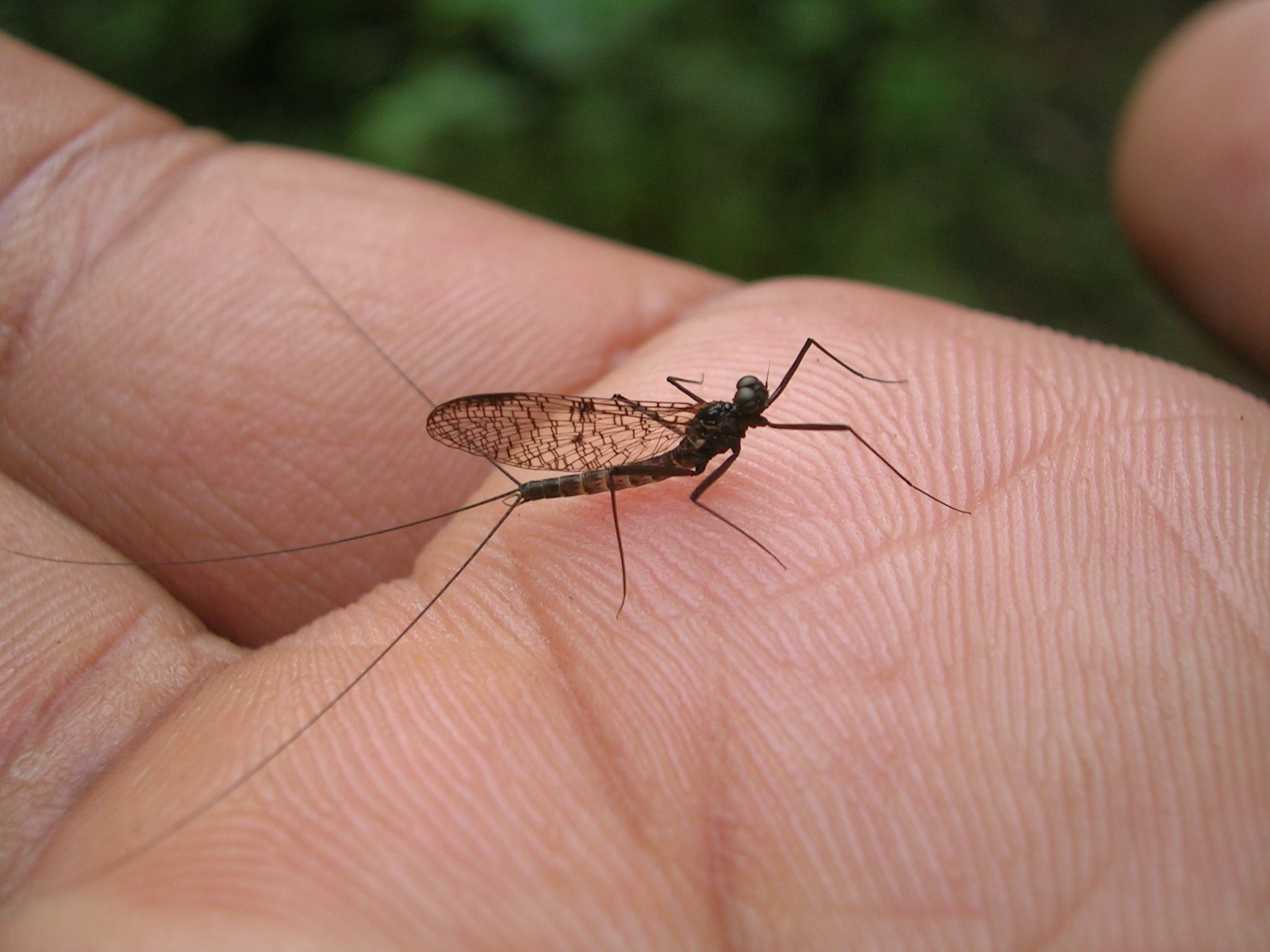 Mayfly from Manjur in the Nilgiris, India